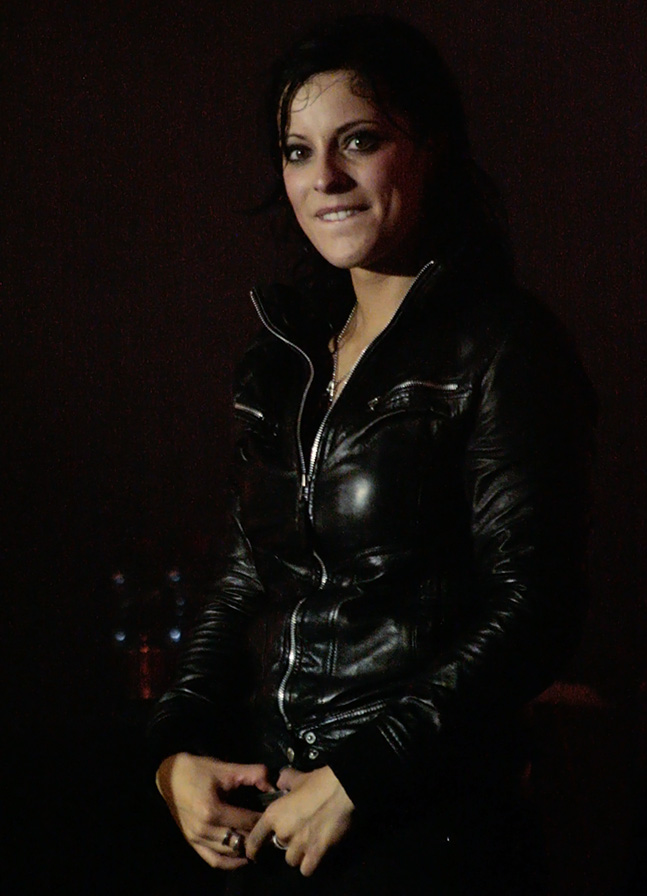 Silbermond at the Donauinselfest 2009